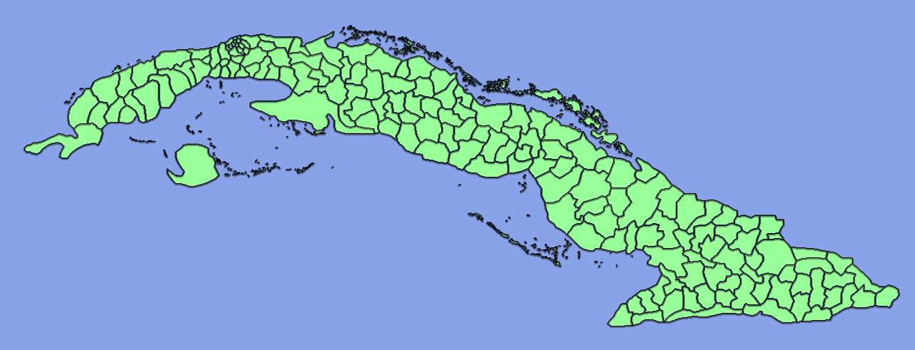 Map of Municipalities in Cuba